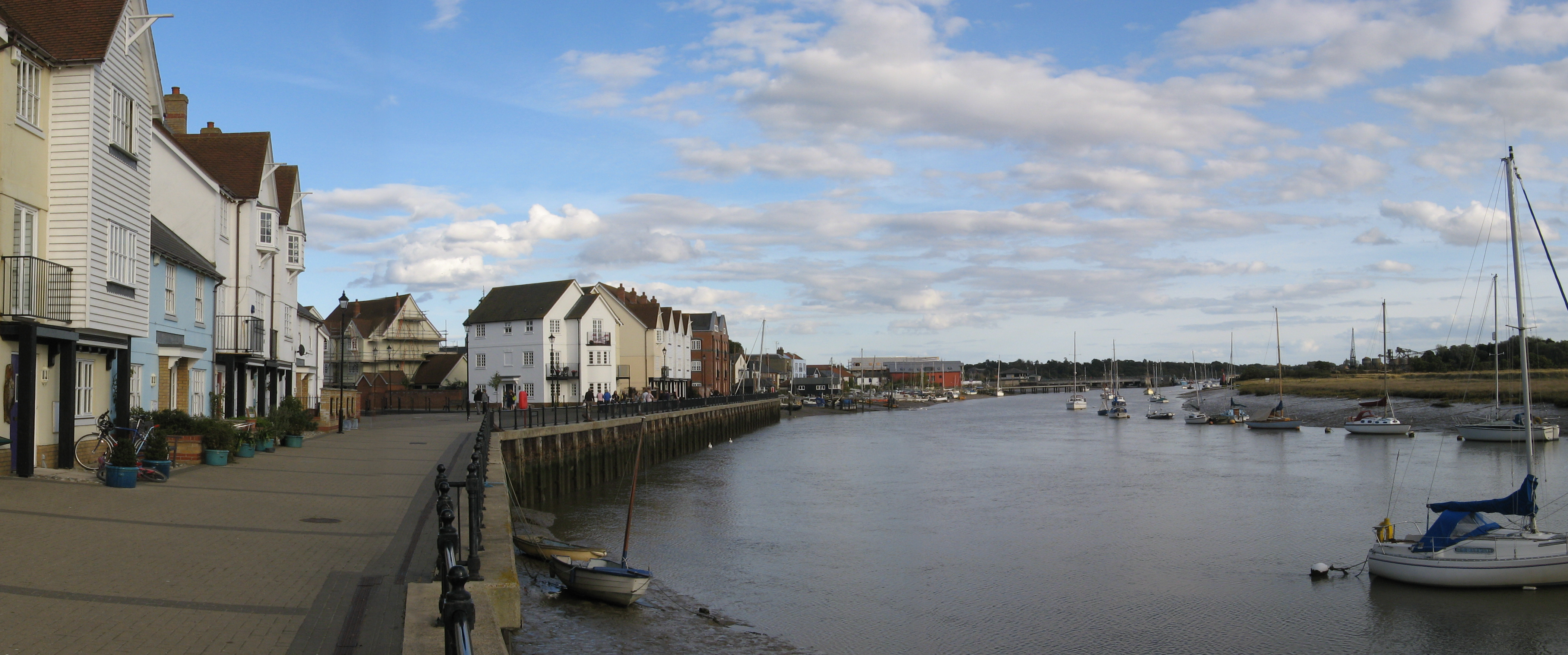 Wivenhoe frontage on the River Colne, Essex.